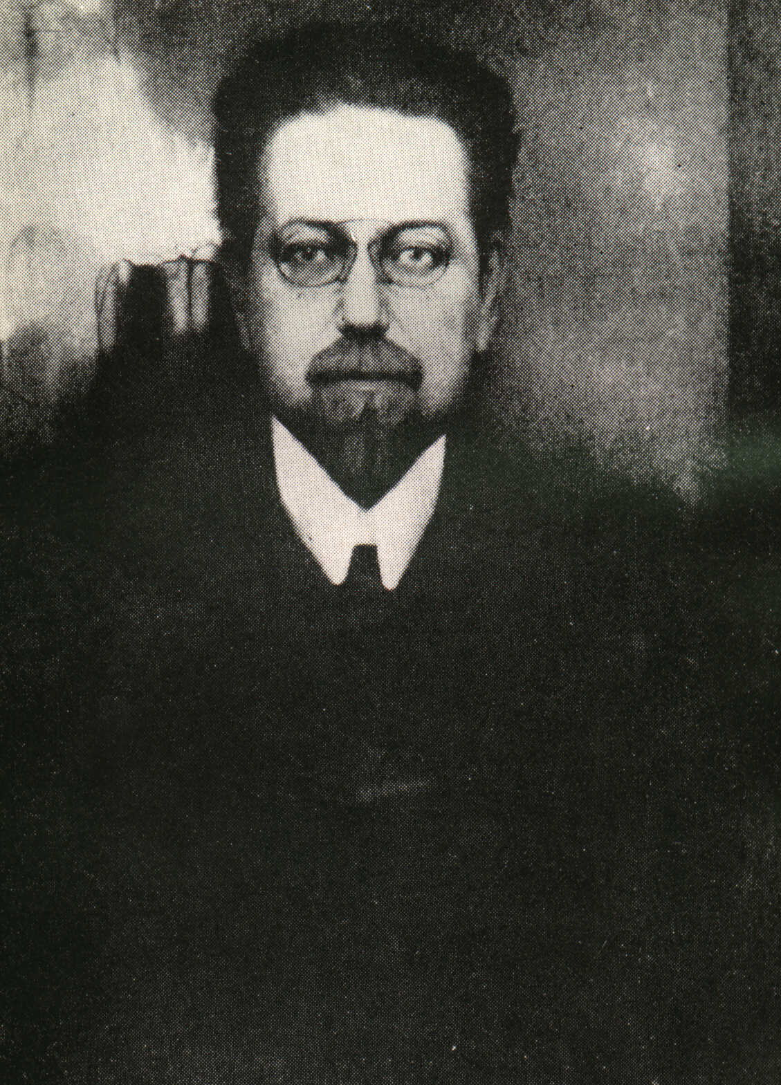 Władysław Reymont